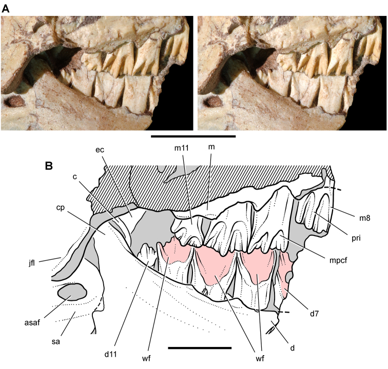 Original description: Posterior dentition of Heterodontosaurus tucki from from the Lower Jurassic Upper Elliot and Clarens formations of South Africa. Tooth wear and replacement in posterior maxillary and dentary teeth of a juvenile skull (AMNH 24000). Stereopair (A) and line drawing (B) in right lateral view. Hatching indicates broken bone; dashed lines indicate estimated edges; grey tone indicates matrix; pink tone indicates wear facets. Scale bars equal 2 cm in A and 1 cm in B. Abbreviations: asaf anterior surangular foramen c coronoid cp coronoid process d dentary d7, 11 dentary tooth 7, 11 ec ectopterygoid jfl jugal flange m maxilla m8, 11 maxillary tooth 8, 11 mpcf mesial paracingular fossa pri primary ridge sa surangular wf wear facet.